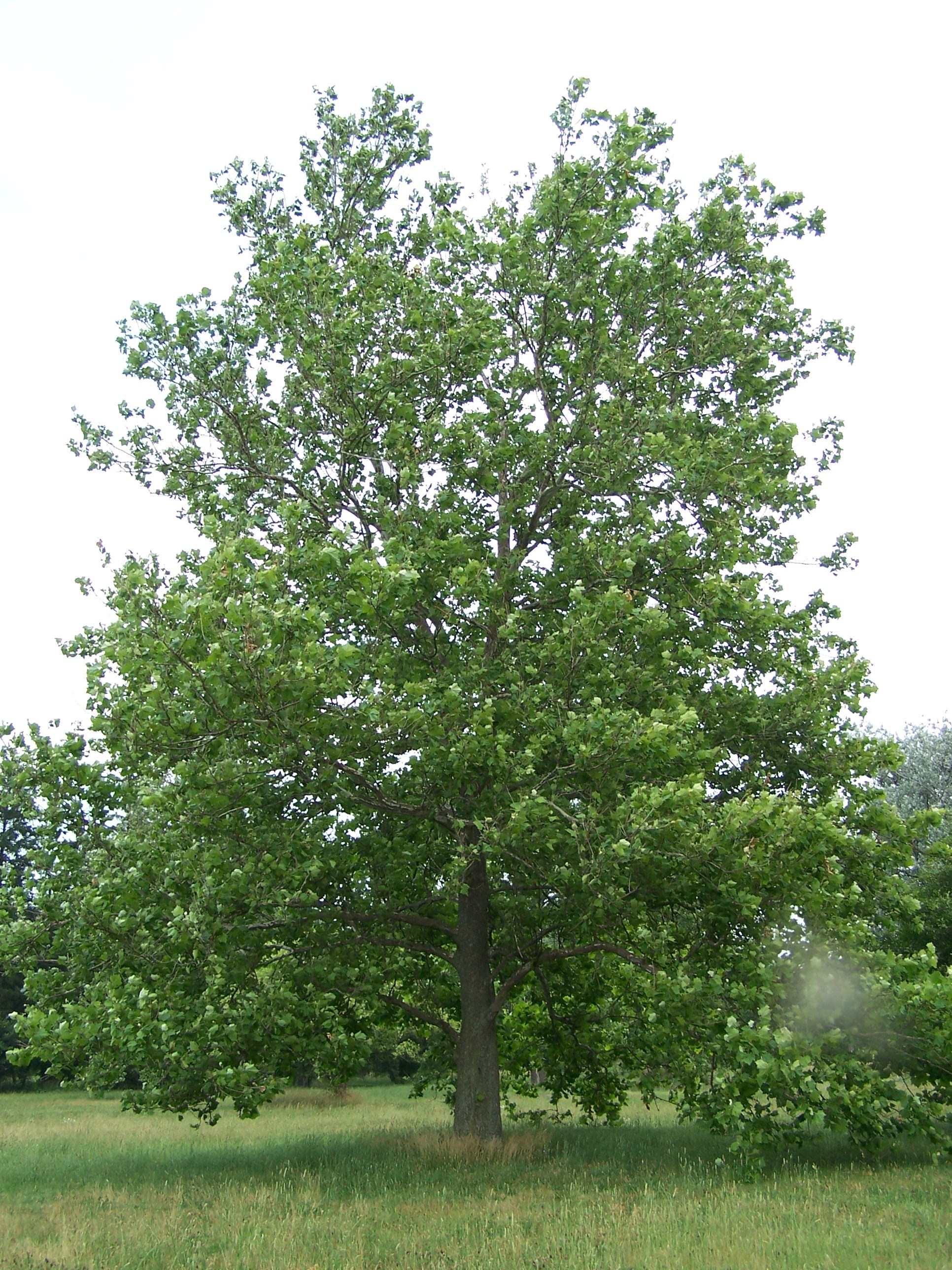 American Sycamore Tree Platanus occidentalis. Specimen tree at Morton Arboretum, Lisle, Illinois, USA.